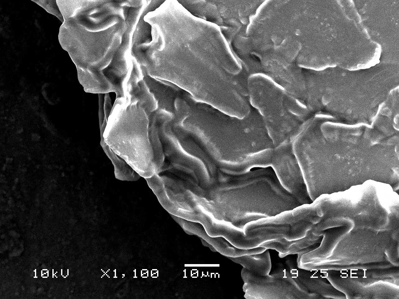 Zoomed version of human dandruff by a scanning electron microscope